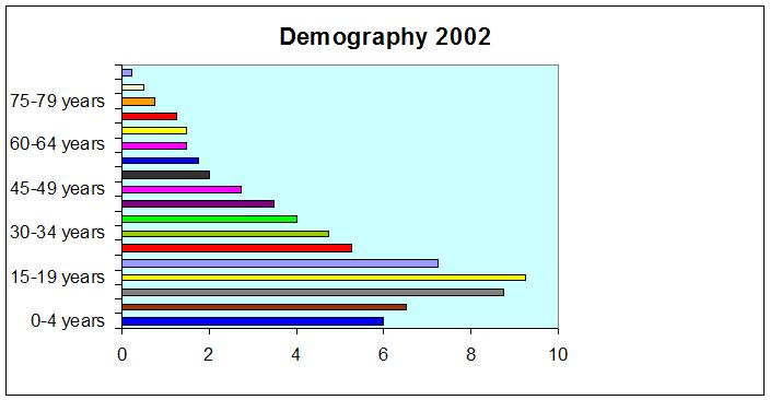 Demography of Iran X-axis: % of population by age, 2002 . Source for raw data: Statistical Center of Iran This graph image could be recreated using vector graphics as an SVG file. This has several advantages; see Commons:Media for cleanup for more information. If an SVG form of this image is already available, please upload it. After uploading an SVG, replace this template with vector version available|new image name.svg .